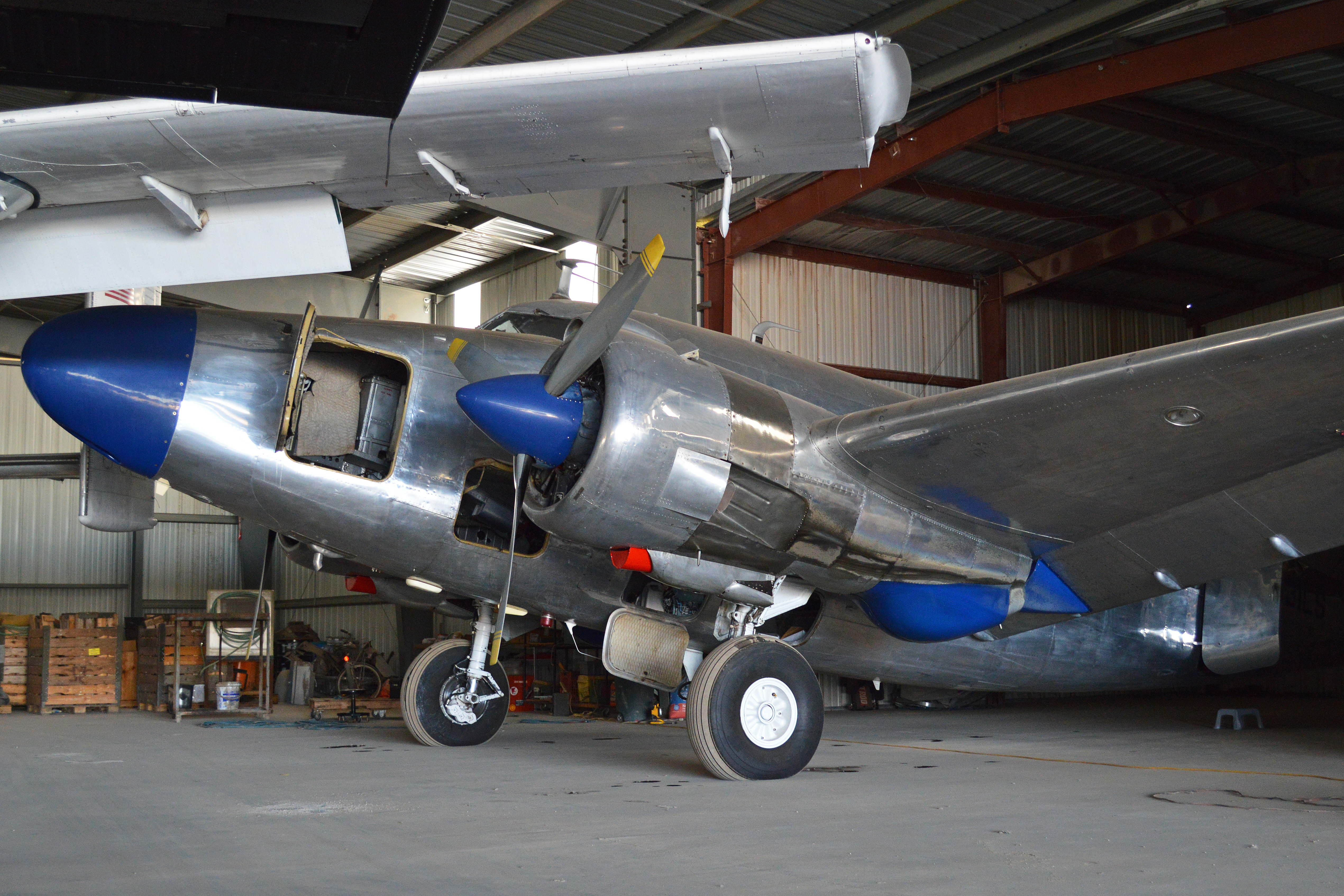 This rare Lodestar was built as an R5O-5 for the U.S.Navy with the Bureau No 12474. Later converted for civil use, it is now one of only about 15 Lodestars of any model currently airworthy in the USA. It is maintained in first class condition. c/n 2404. Eloy Municipal Airport. Arizona, USA. 11-2-2014